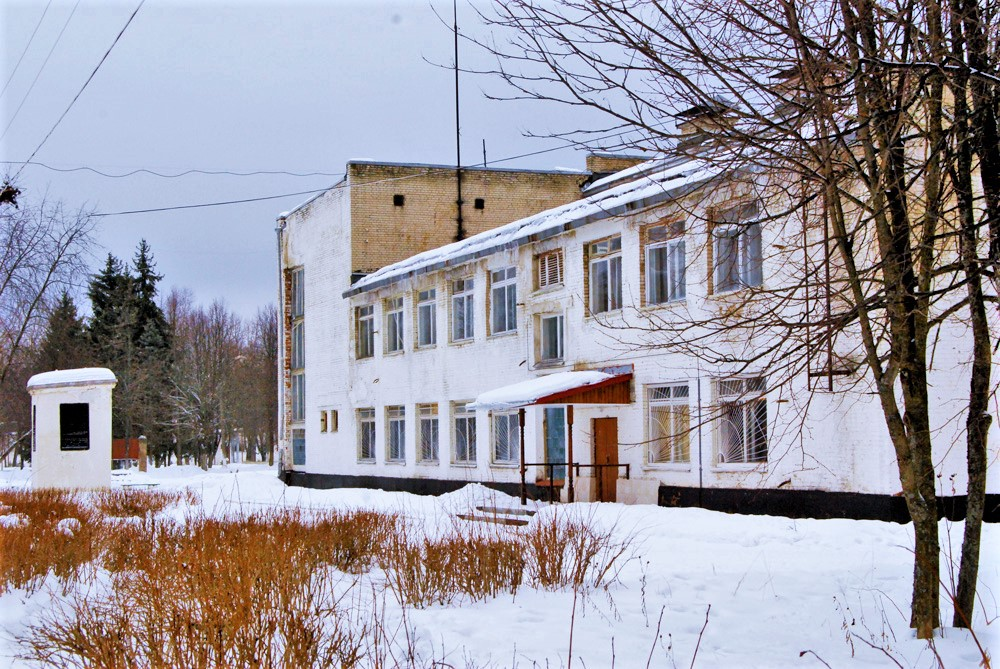 Klub, Molodyozhny, Moscow region